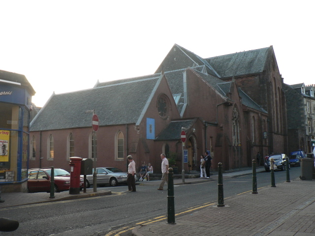 Oban: cathedral church of St. John the Divine The Scottish Episcopal Church's cathedral in Oban – not to be confused with the more imposing Catholic cathedral on the northern side of Oban Bay.